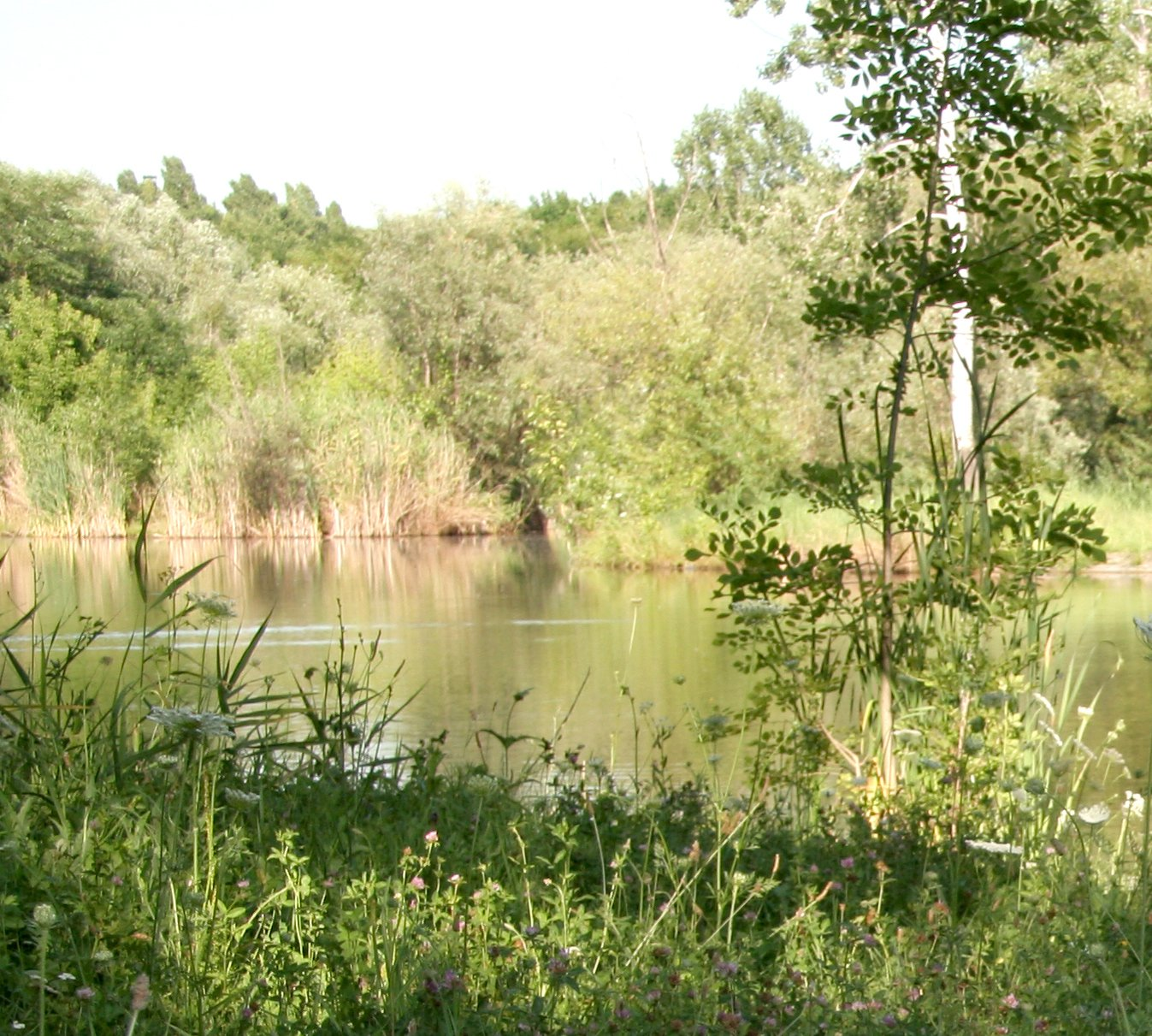 Botanical garden, Chisinau